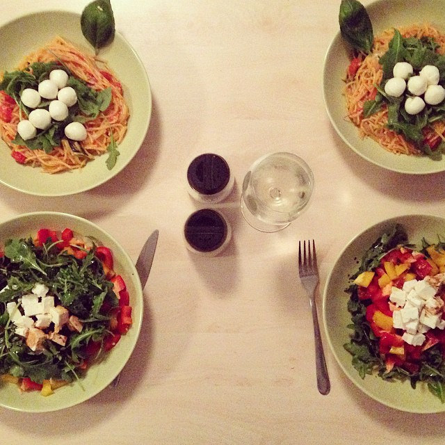 One-pot-pasta served in dishes